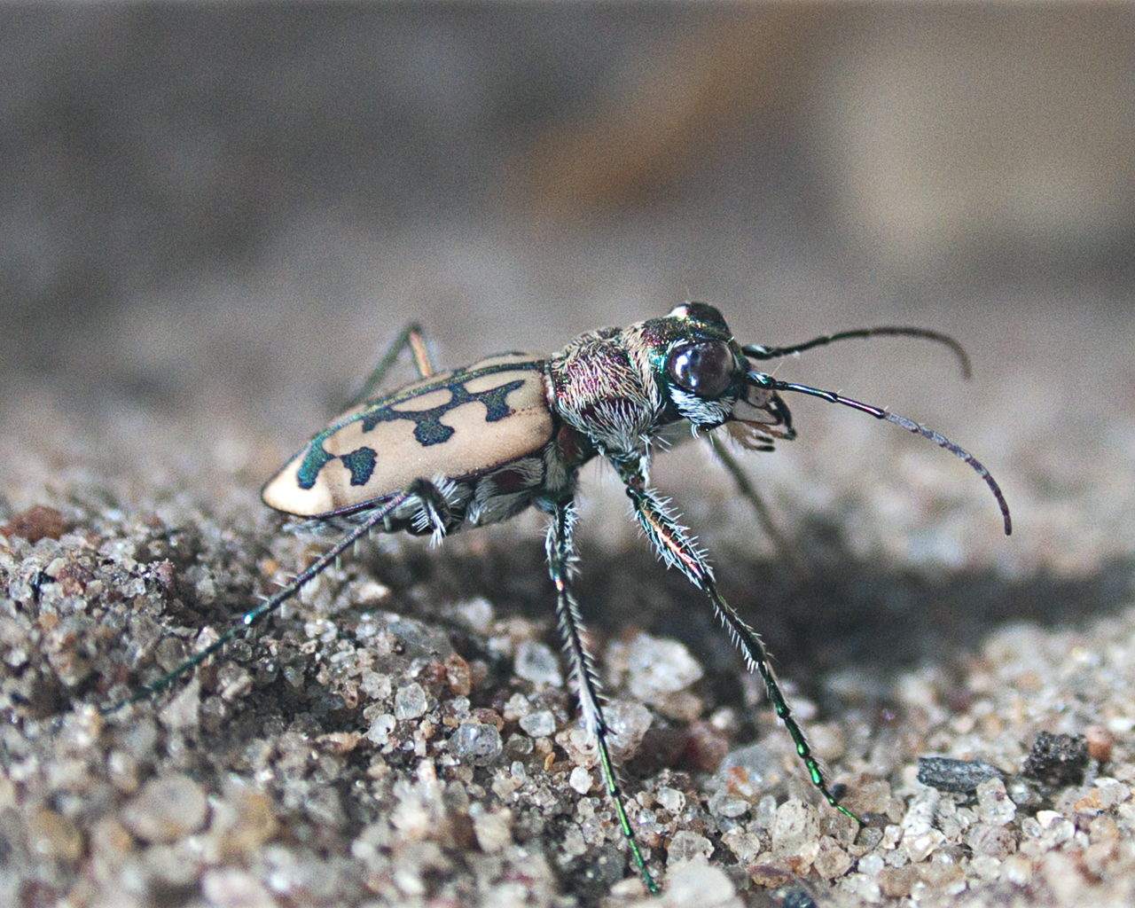 Taken at Keelakarai, Ramanathapuram District.